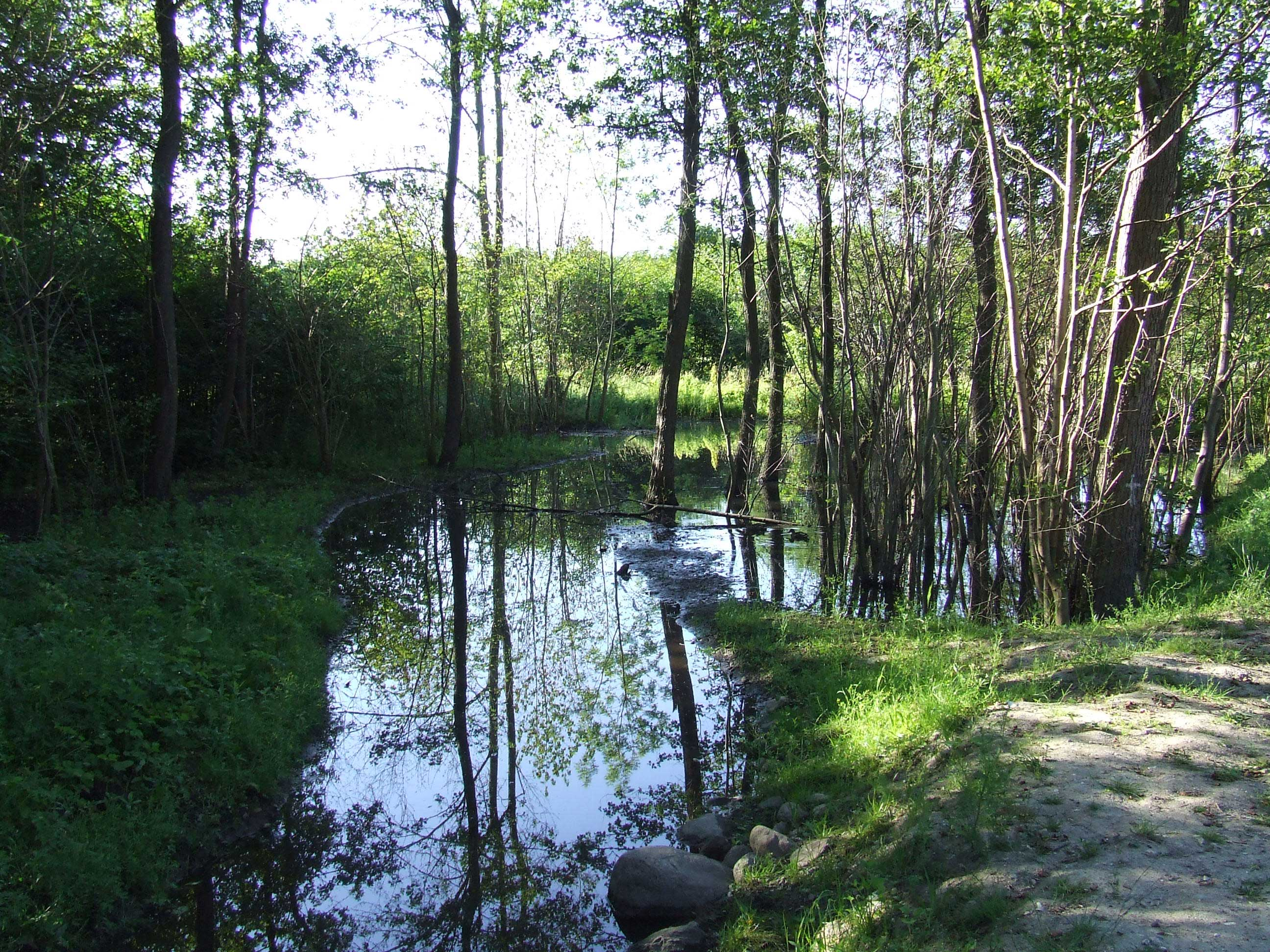 Natural area Bremerholm near Århus, Denmark